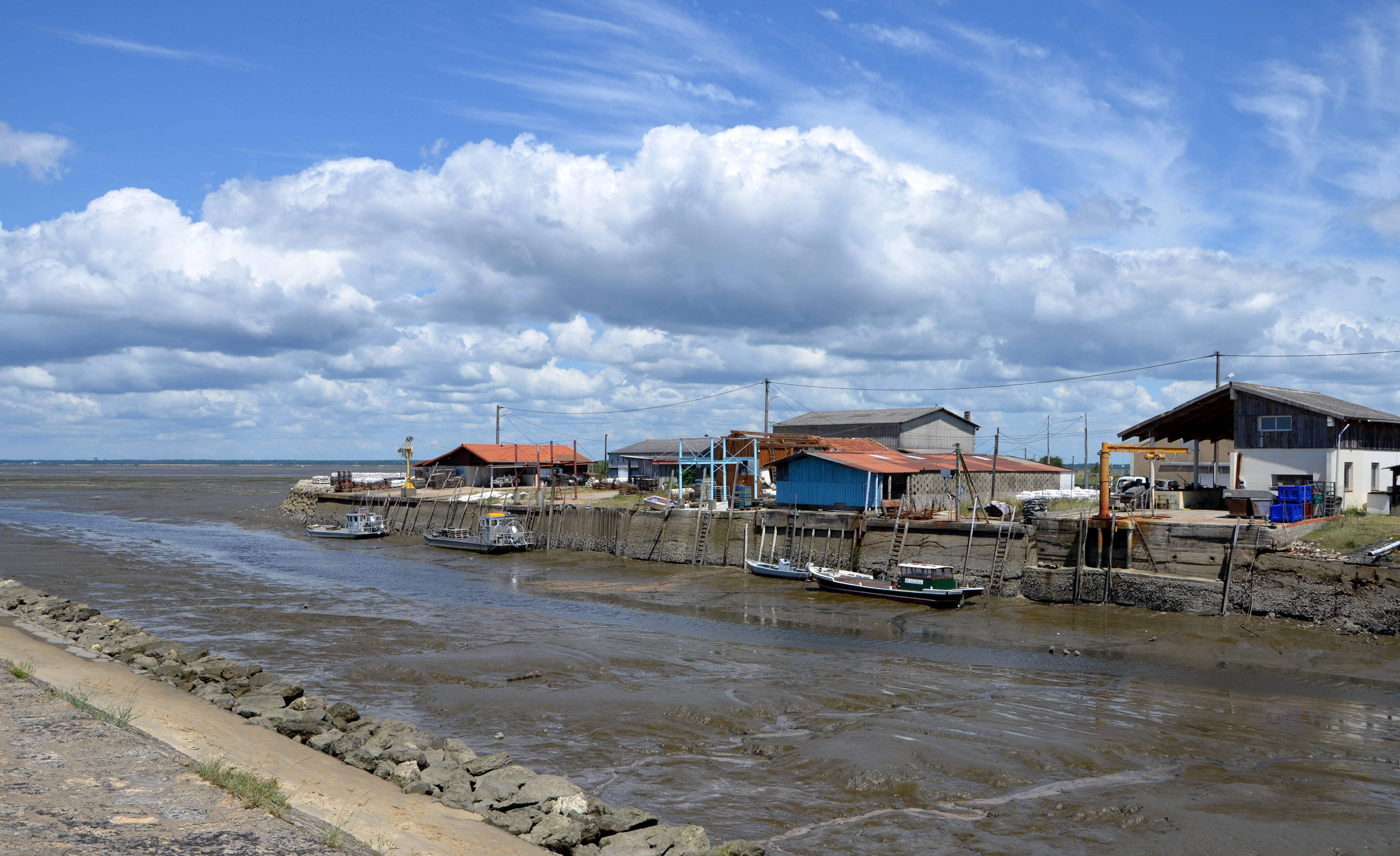 Oyster-farming port of Larros , Gujan-Mestras, south of the Bay of Arcachon, Gironde, France